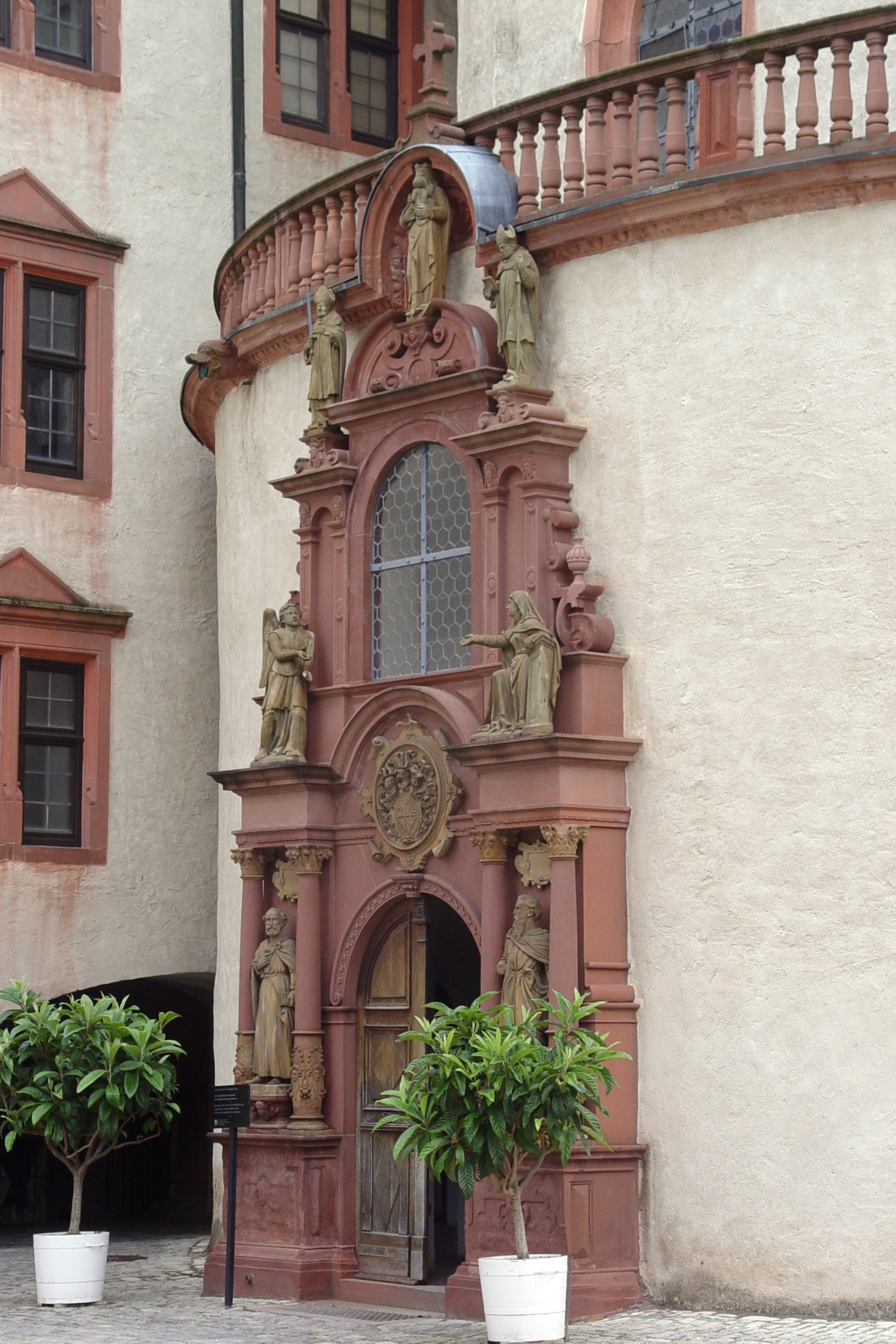 Portal of Saint Mary's church in Marienberg fortress at Wuerzburg with apostles Peter and Paul, the annunciation, the bishops Kilian and Burkard and Maria